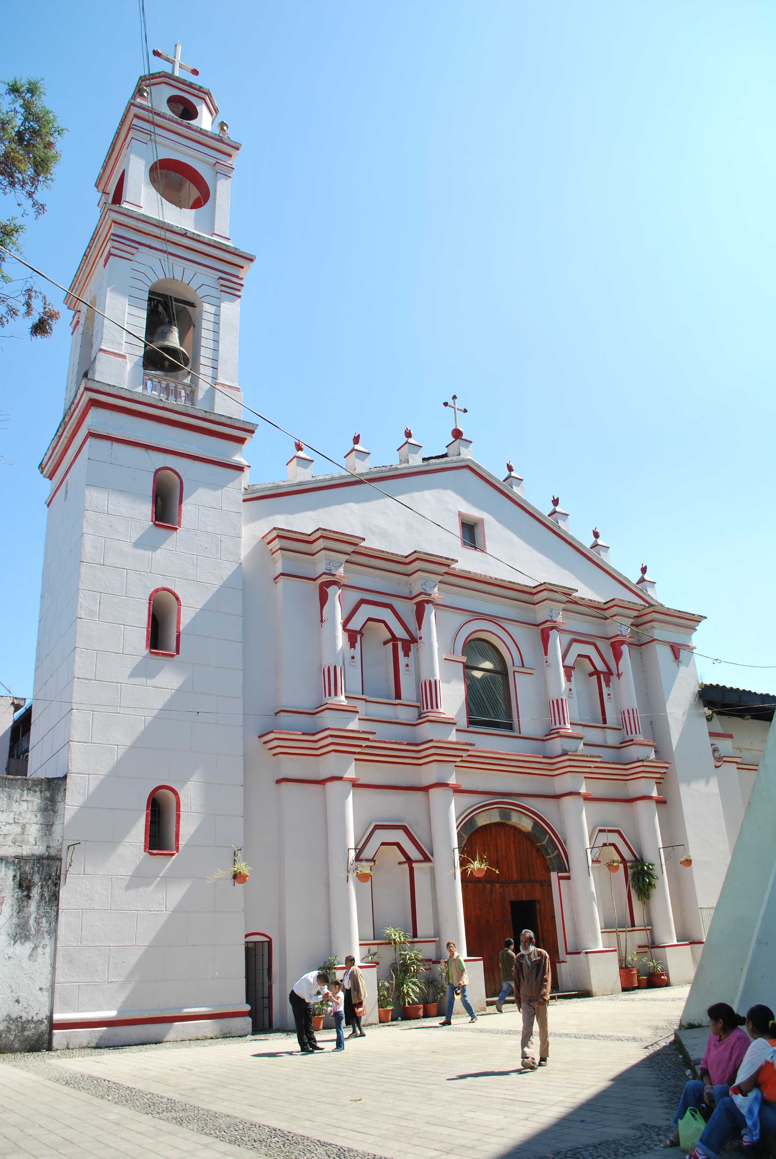 Facade of the Santo Entierro Sanctuary in Huauchinango, Puebla, Mexico